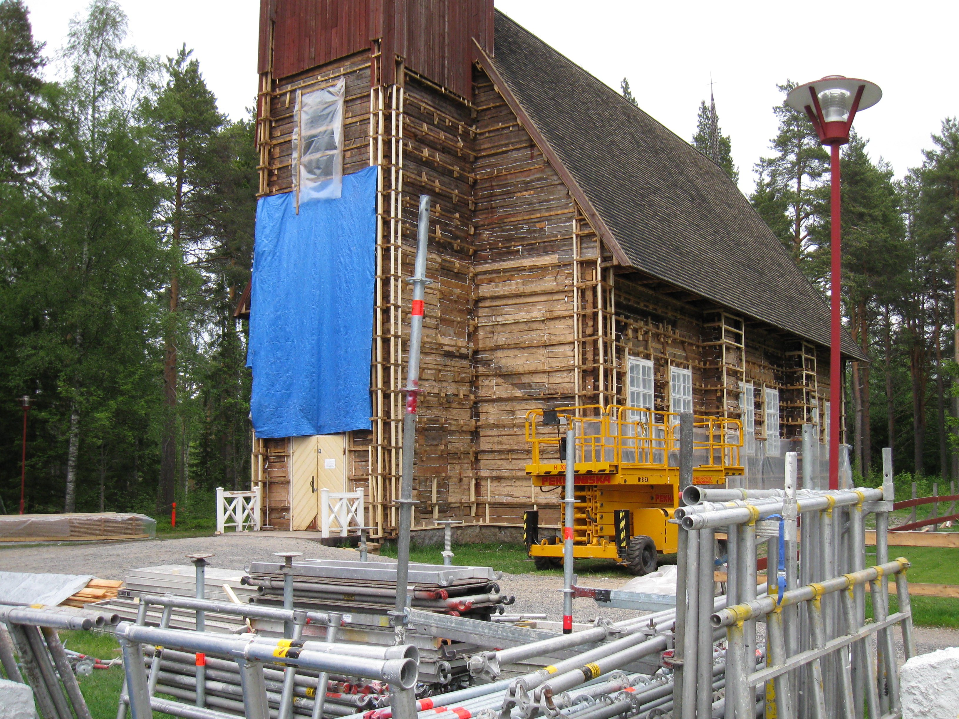 Repairing of the church of Utajärvi ongoing in June, 2009.